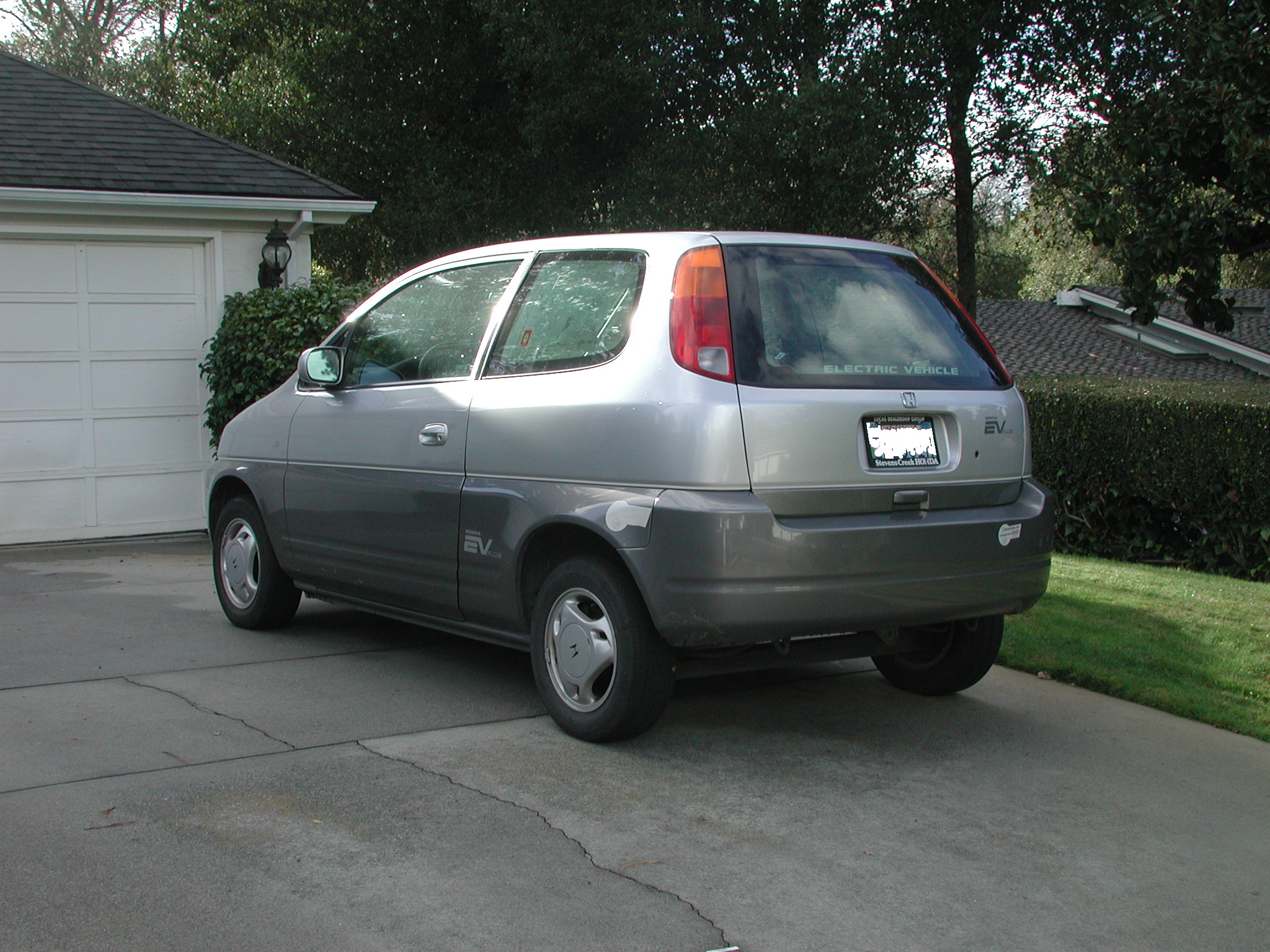 1997-1999 Honda EV Plus